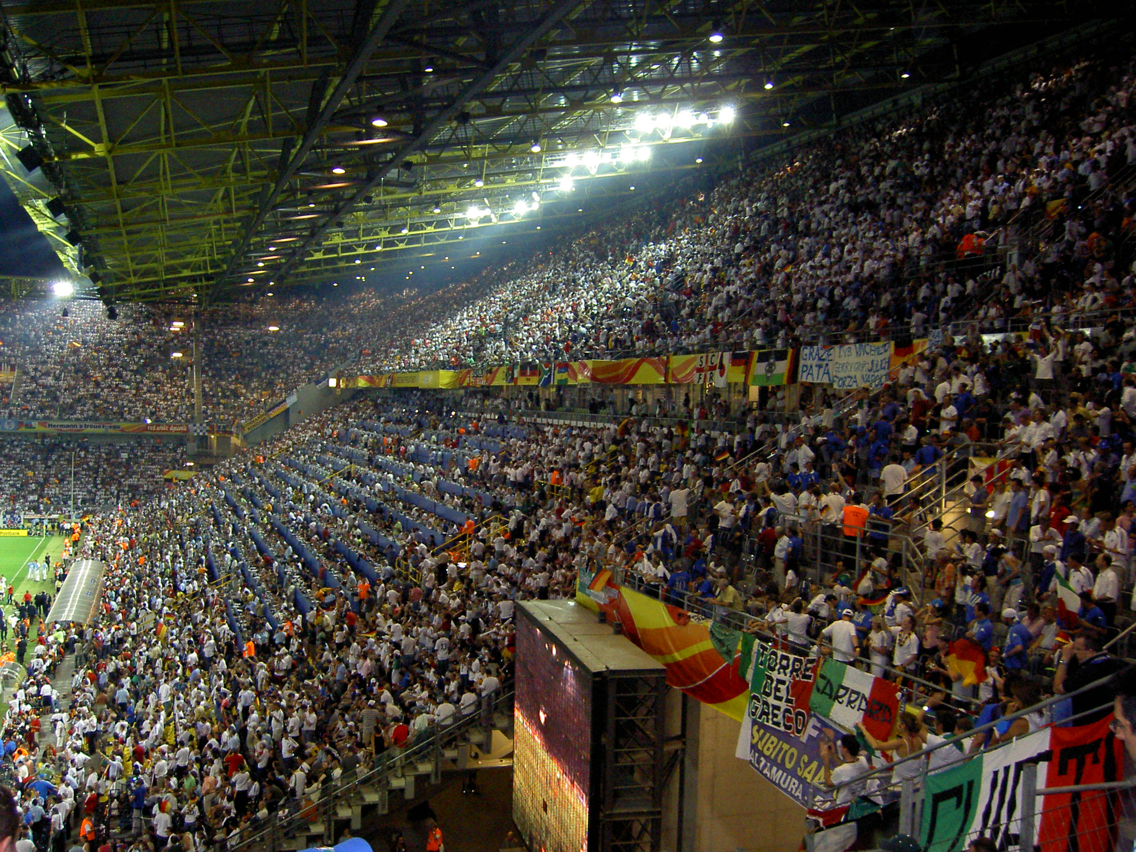 The Signal Iduna Park